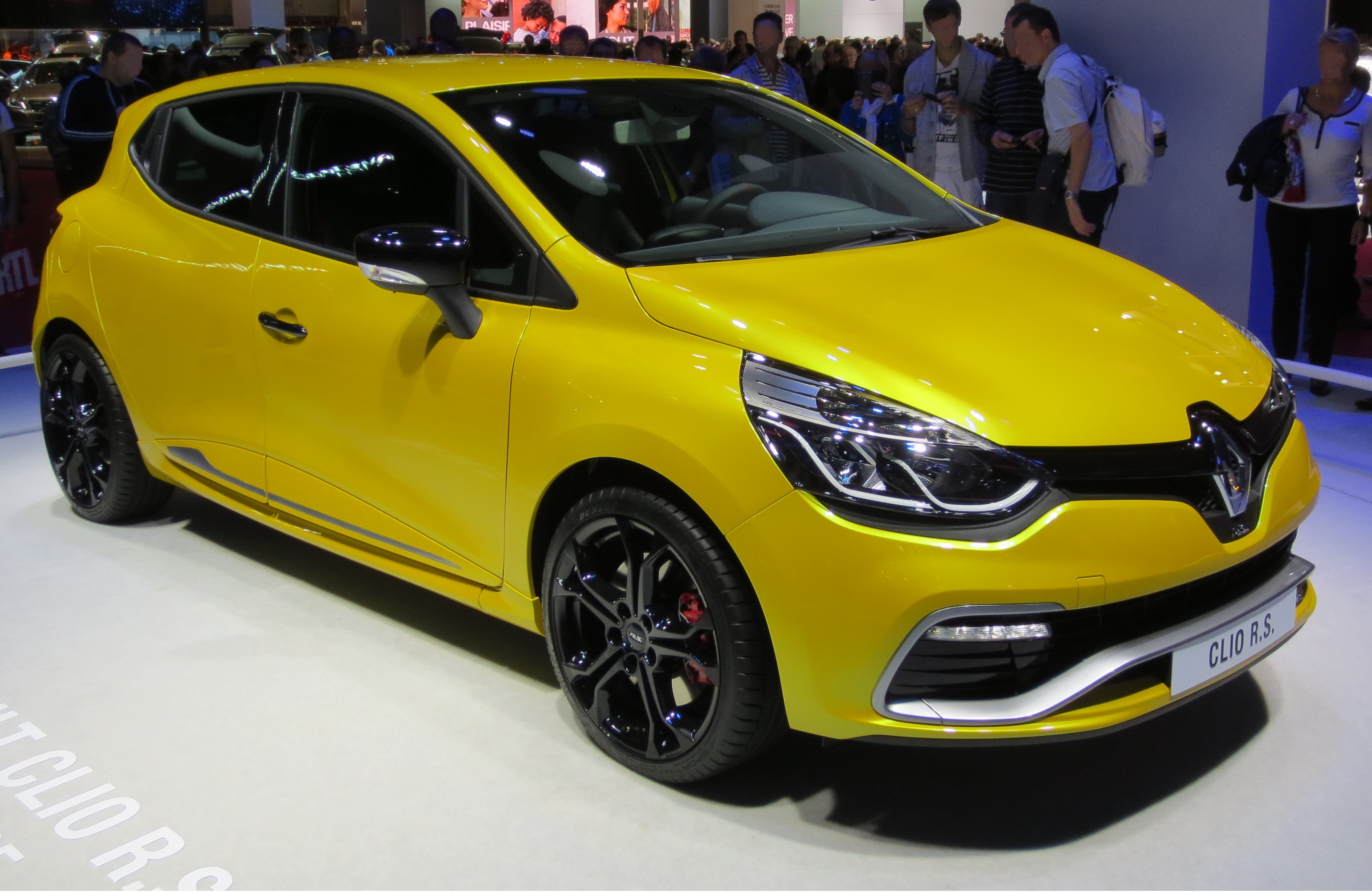 Subject: Renault Clio IV RS Author: Luc106 Date:September 29th, 2012 Event: Salon Automobile 2012 Place/Country: Parc des Expositions, Porte de Versailles, Paris I release all rights in the public domain.